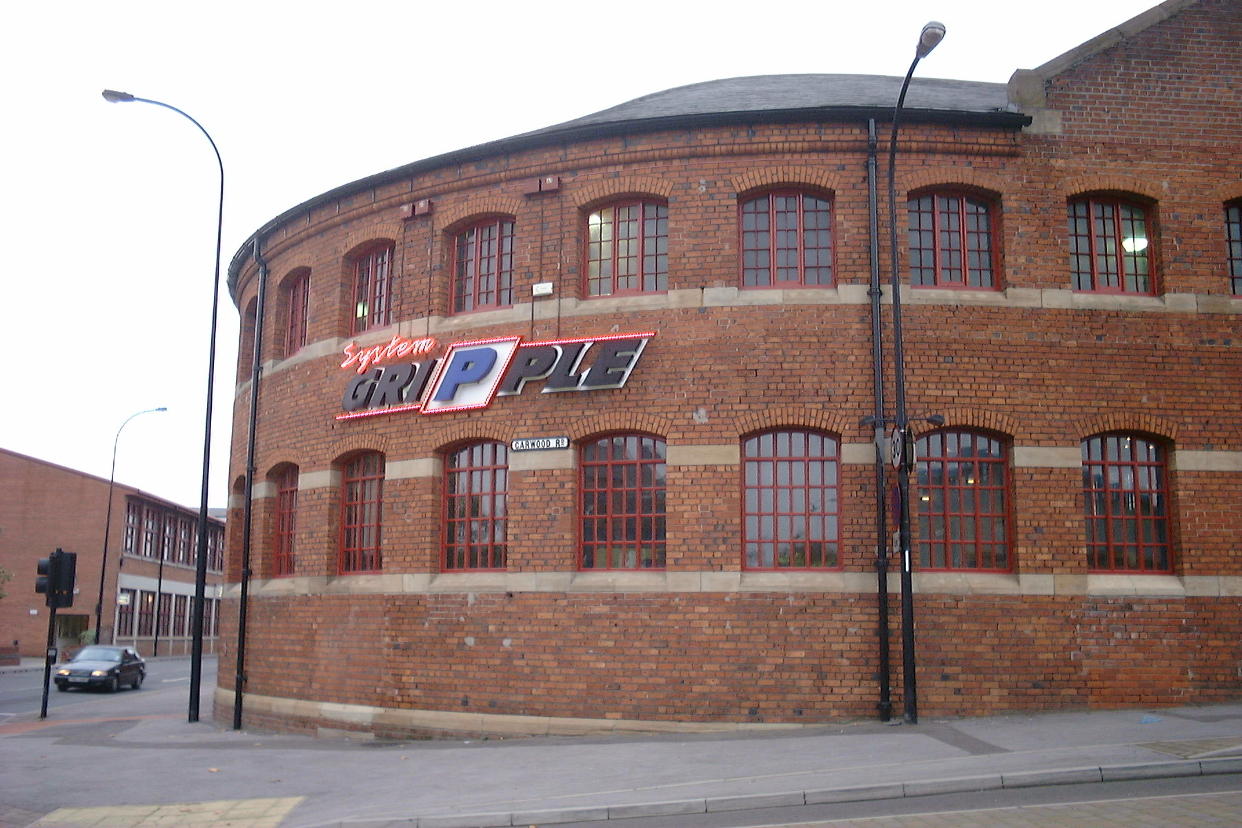 Gripples are handy cable ties for fencing work